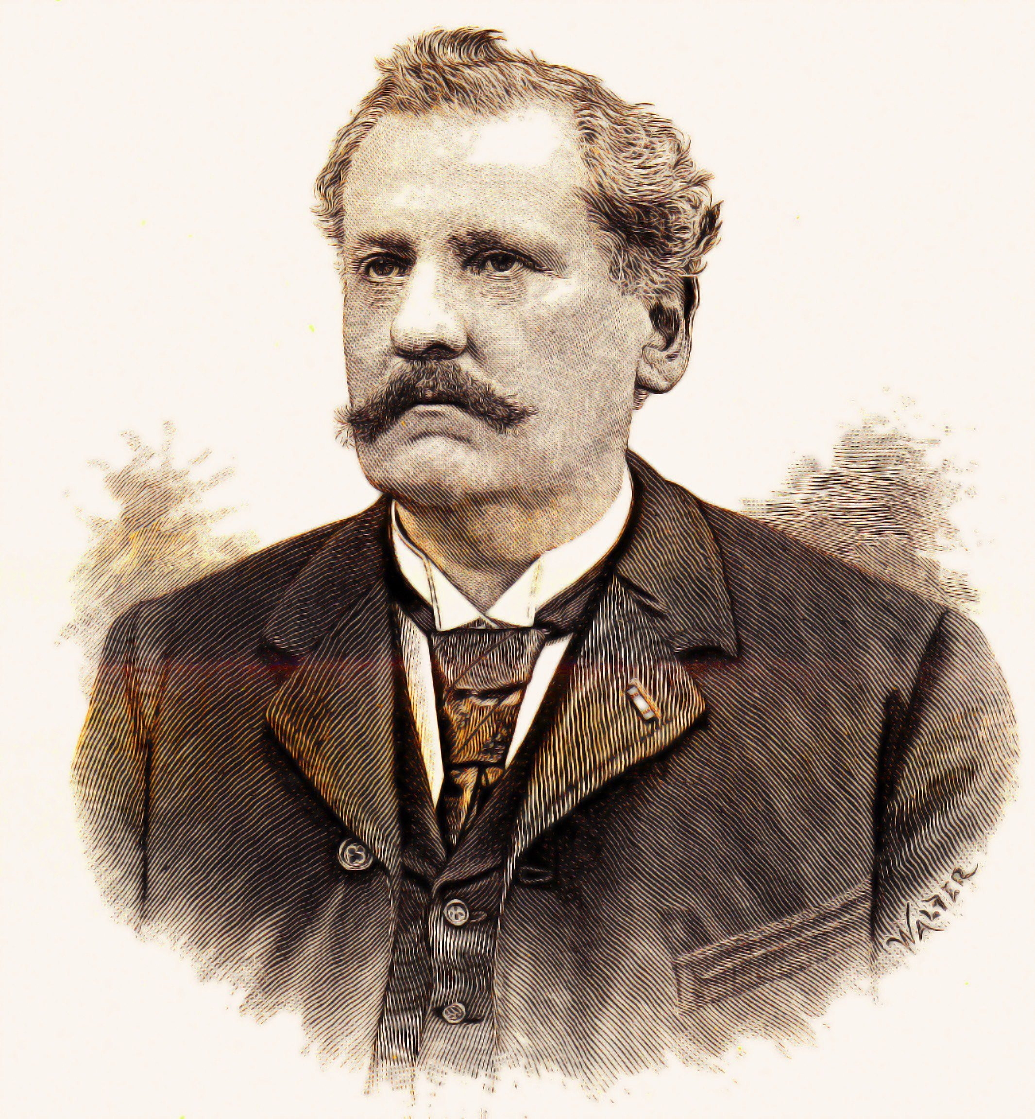 Van der Wijck